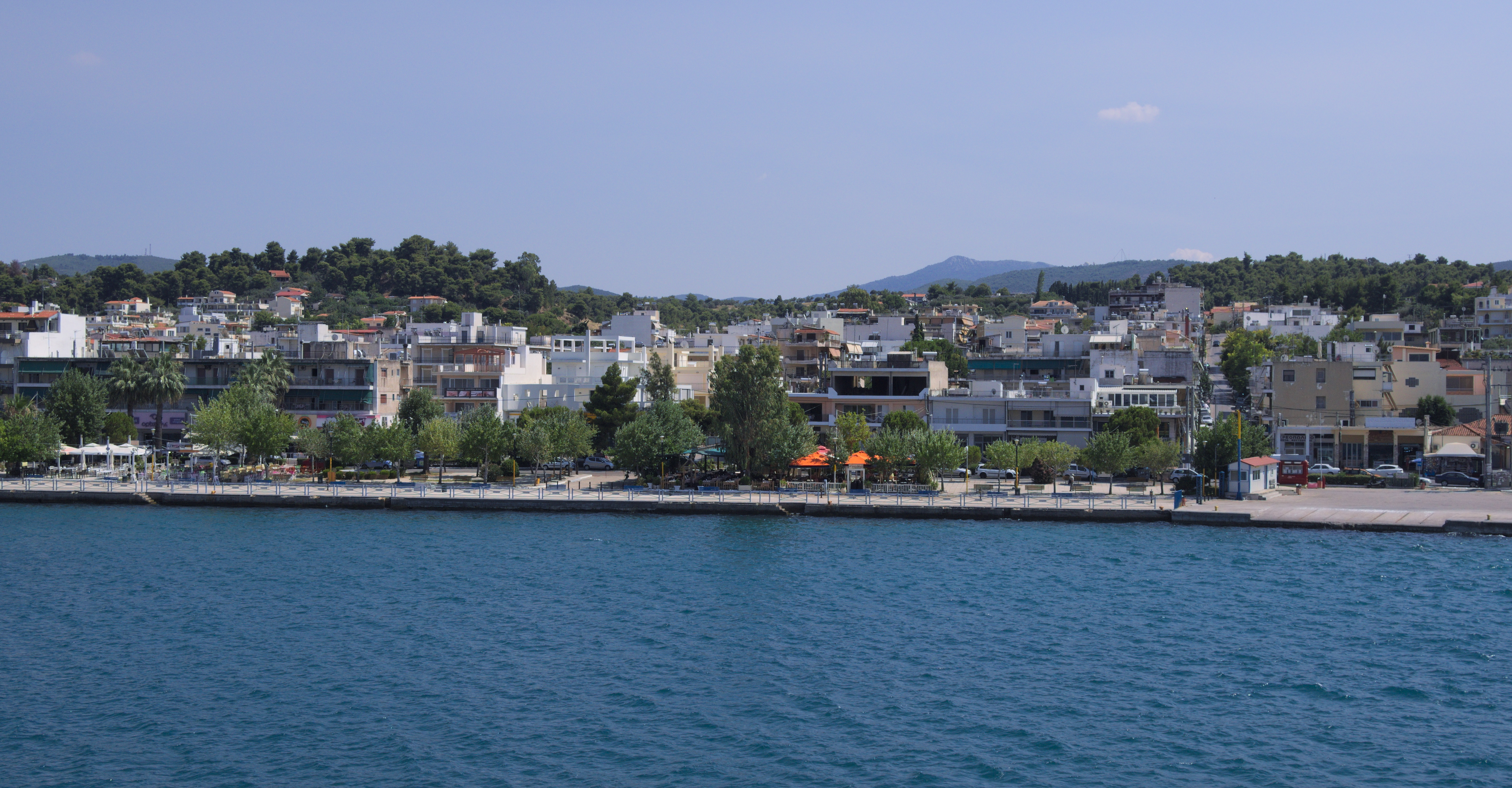 View of Skala Oropou from north.